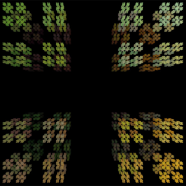 Cantors cube a variation of the fractal Cantor set.